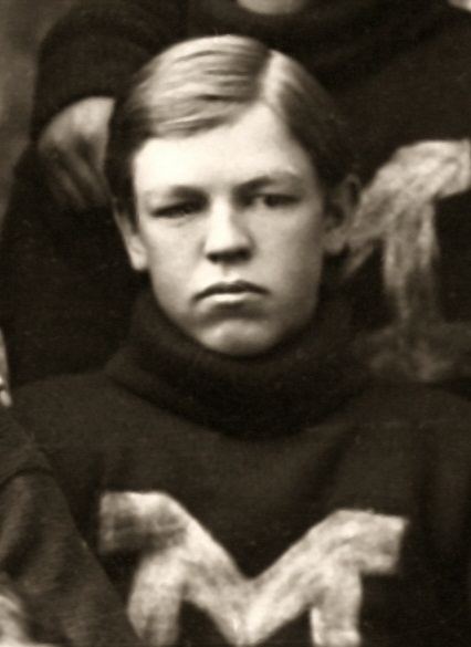 Photograph of Bill Morley